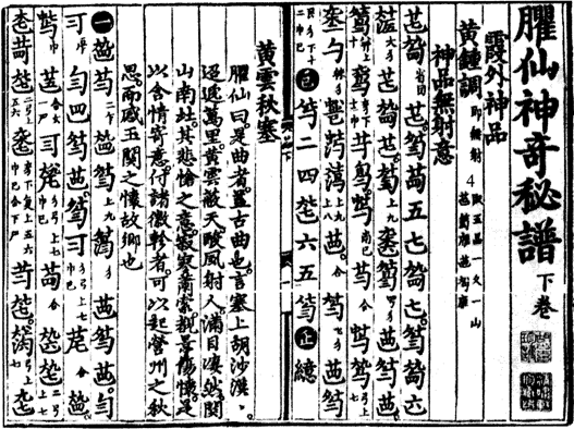 1425 manuscript of Qin notation, China